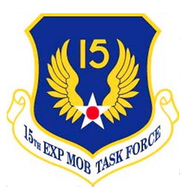 Emblem of the USAF 15th Expeditionary Mobility Task Force